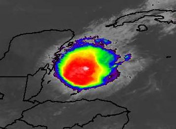 The remnants of tropical storm Agatha in the western Caribbean.